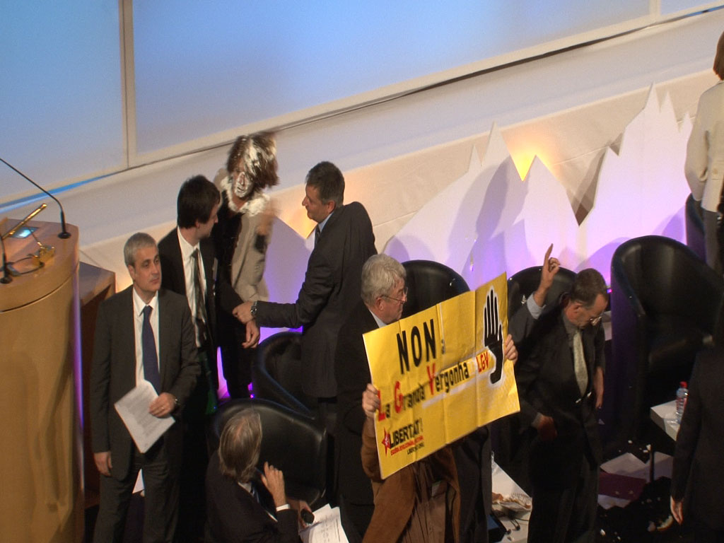 Pie smash to president of Navarre Yolanda Barcina, protesting against High Speed Railway across the Pyrenees, Toulouse, France